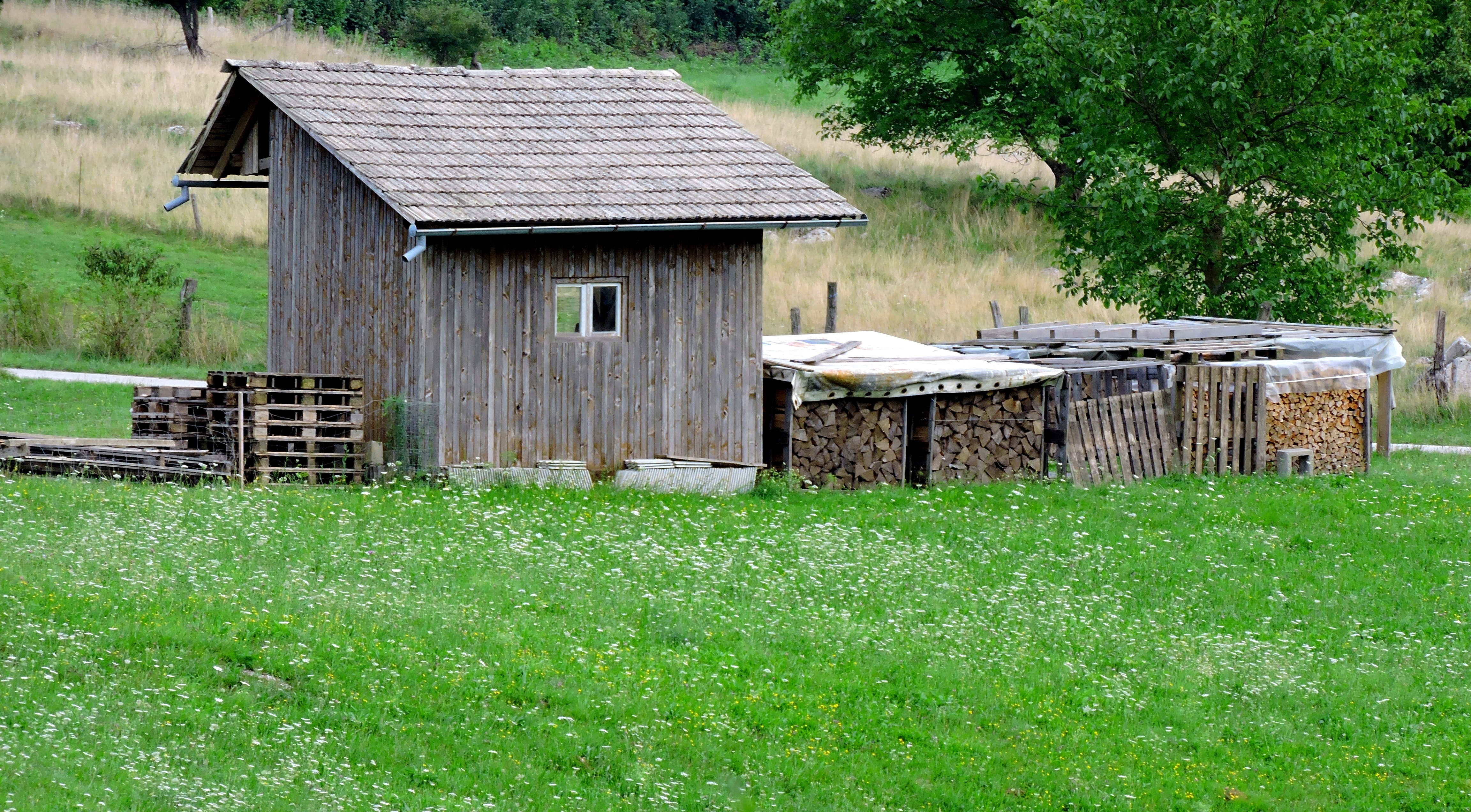 A shack in the middle of a field near Mladica village. It is mostly used for storing firewood.